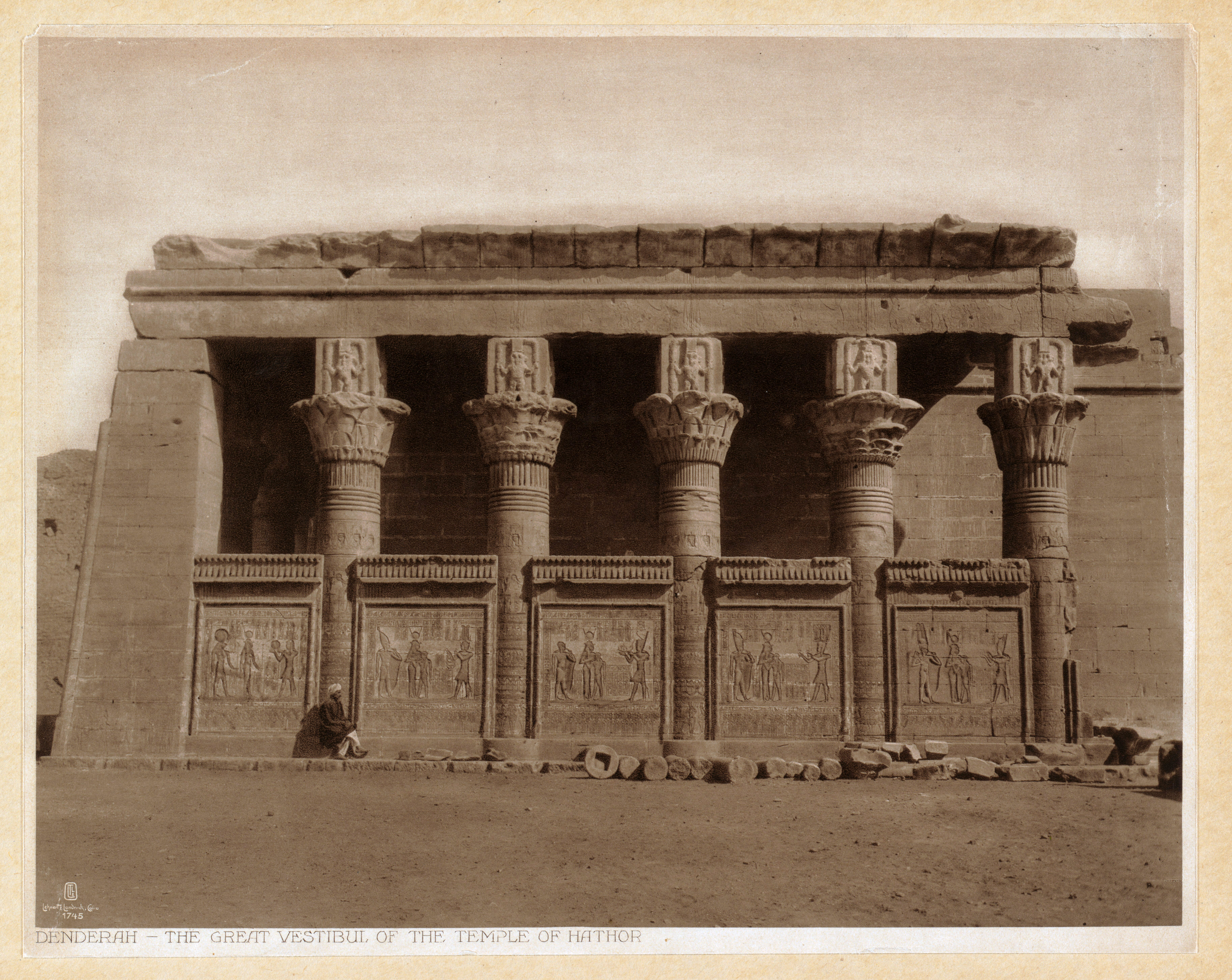 Title: Denderah. The great vestibul [sic] of the Temple of Hathor / Lehnert & Landrock, Cairo. Abstract/medium: 1 photomechanical print : photogravure.